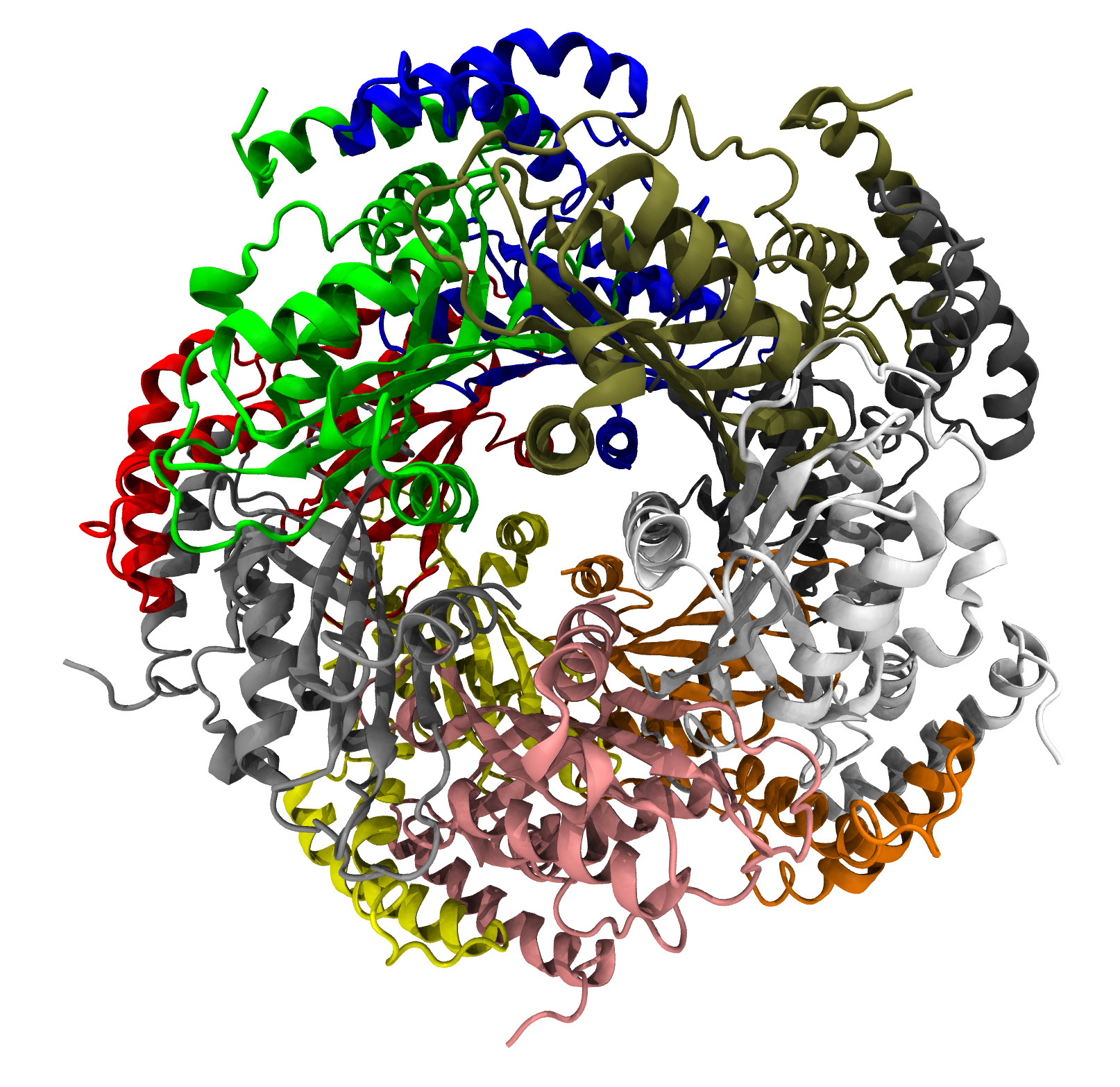 ribbon model of GTP cyclohydrolase I decamer, after PDB 1FB1. Ref.: Auerbach G, Herrmann A, Bracher A, et al. (December 2000). "Zinc plays a key role in human and bacterial GTP cyclohydrolase I". Proc. Natl. Acad. Sci. U.S.A. 97 (25): 13567–72. PMID 11087827. PMC: 17616. This 3D molecular image was created with VMD